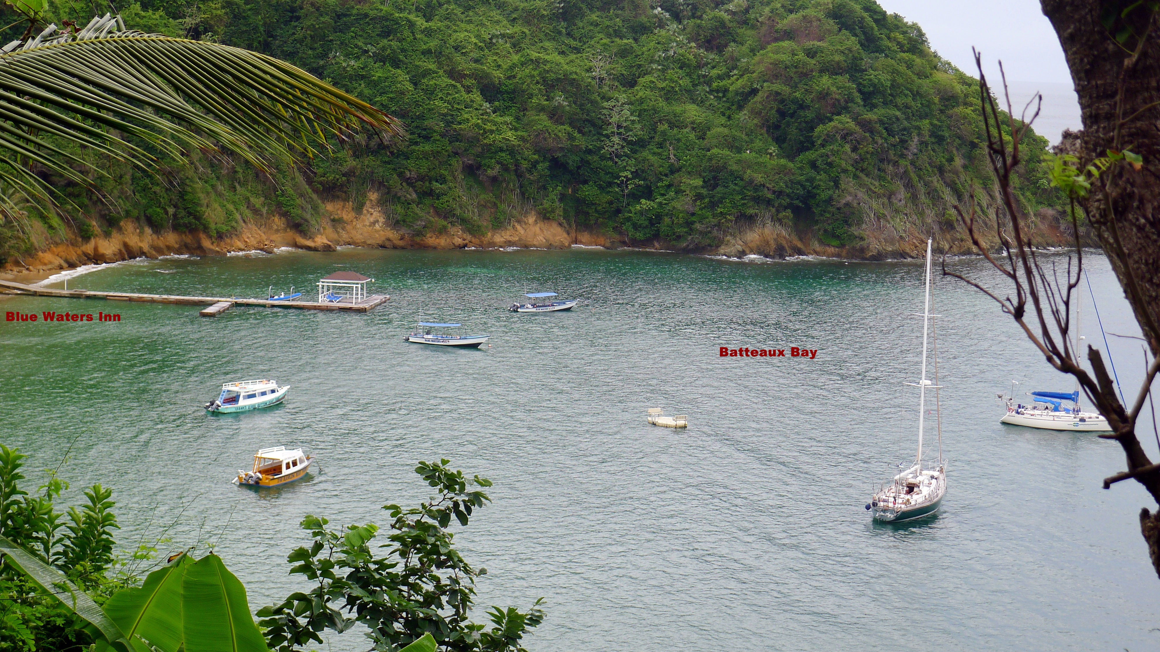 Blue Waters Inn - Resort located on Batteaux bay near the town of Speyside, NE coast of Tobago, West Indies.